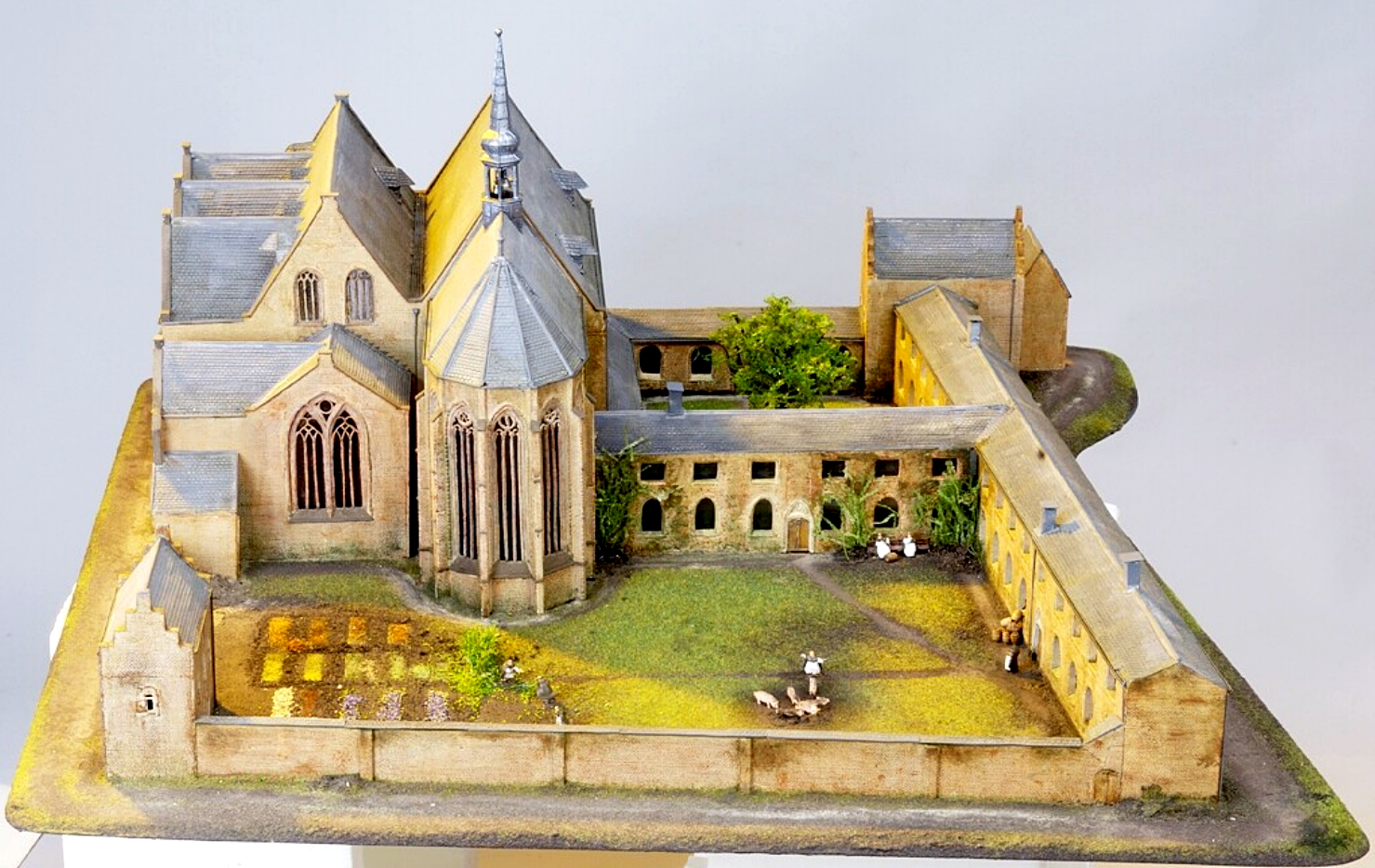 Model of the Cloister church in The Hague, as it appeared in the middle ages.